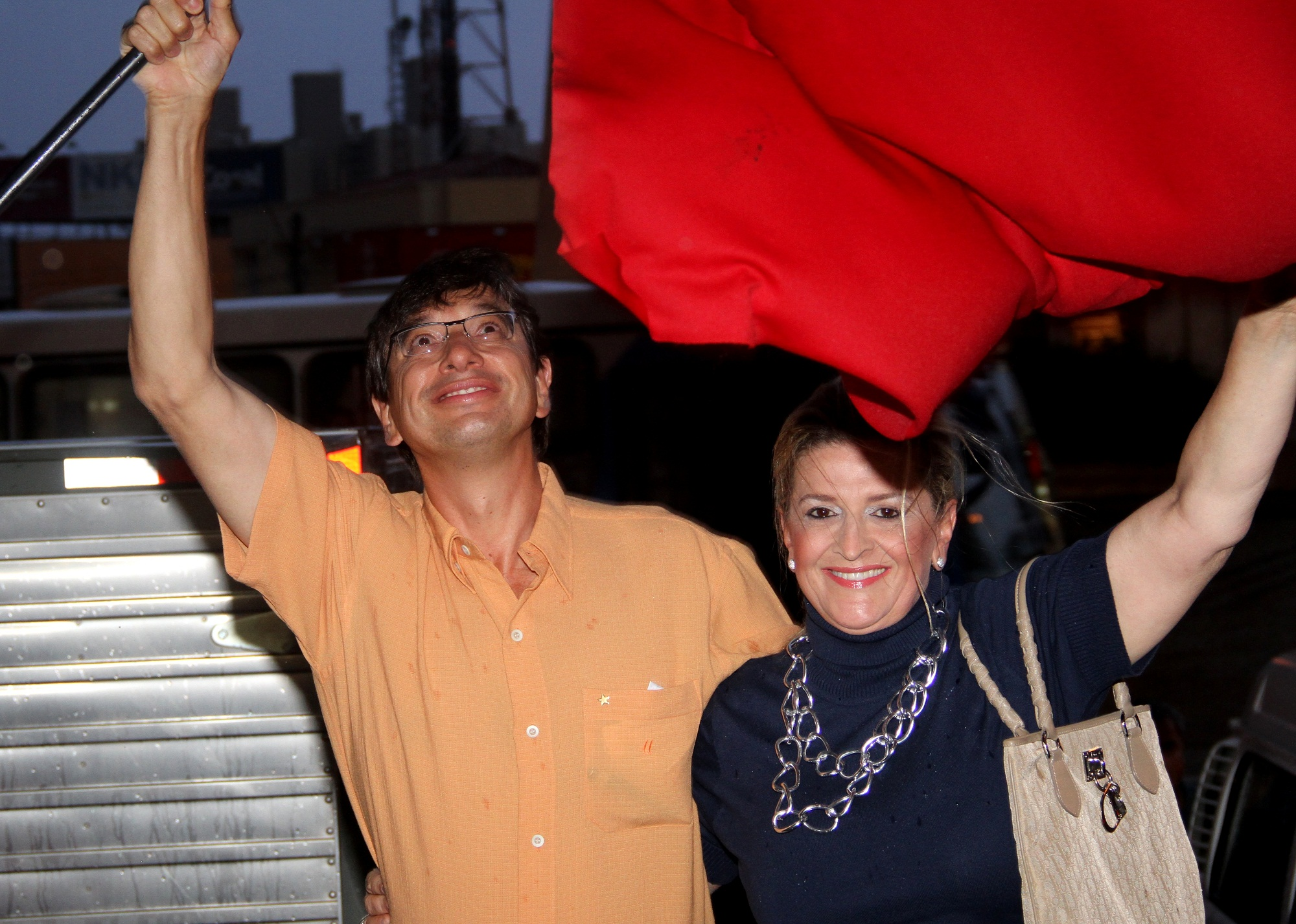 Marcio Pochmann and Adriana Flosi at 2012, pic by: Valeria Abras